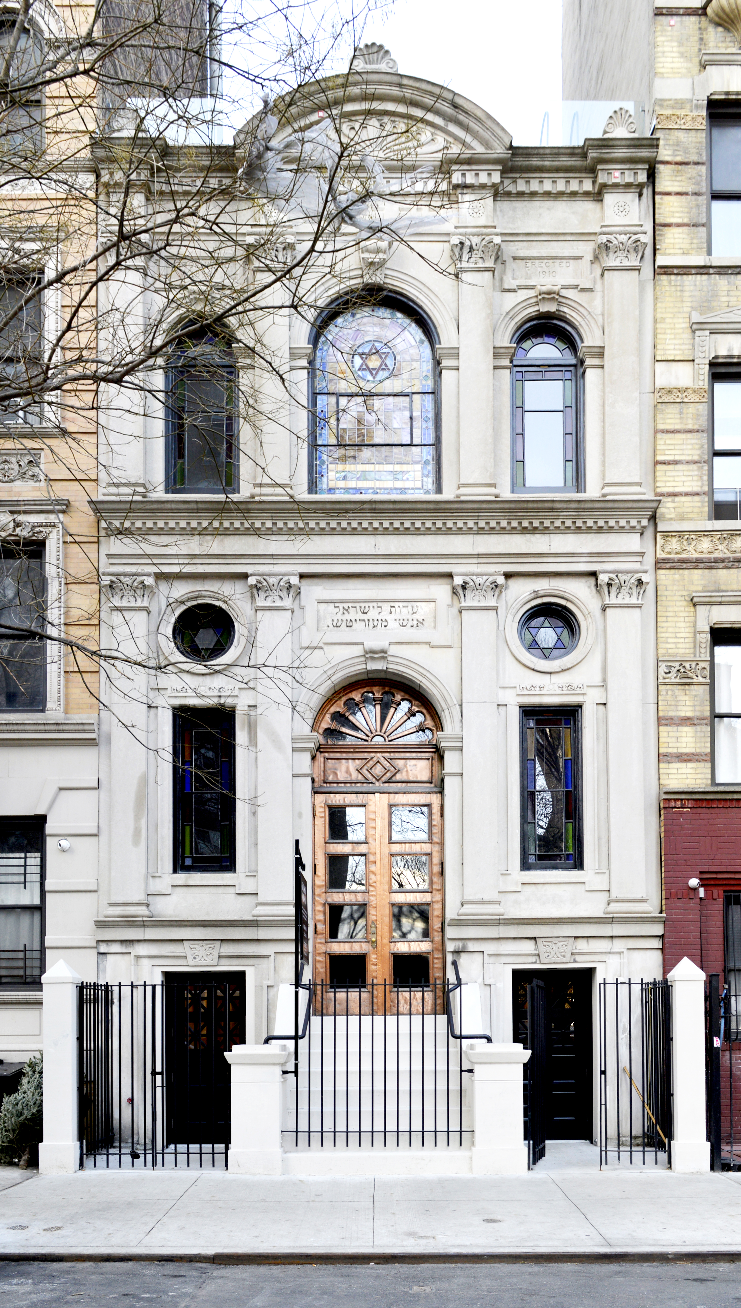 Newly restored facade of the Adas Yisroel Anshe Meseritz Synagogue at 415 E. 6th St. New York, NY